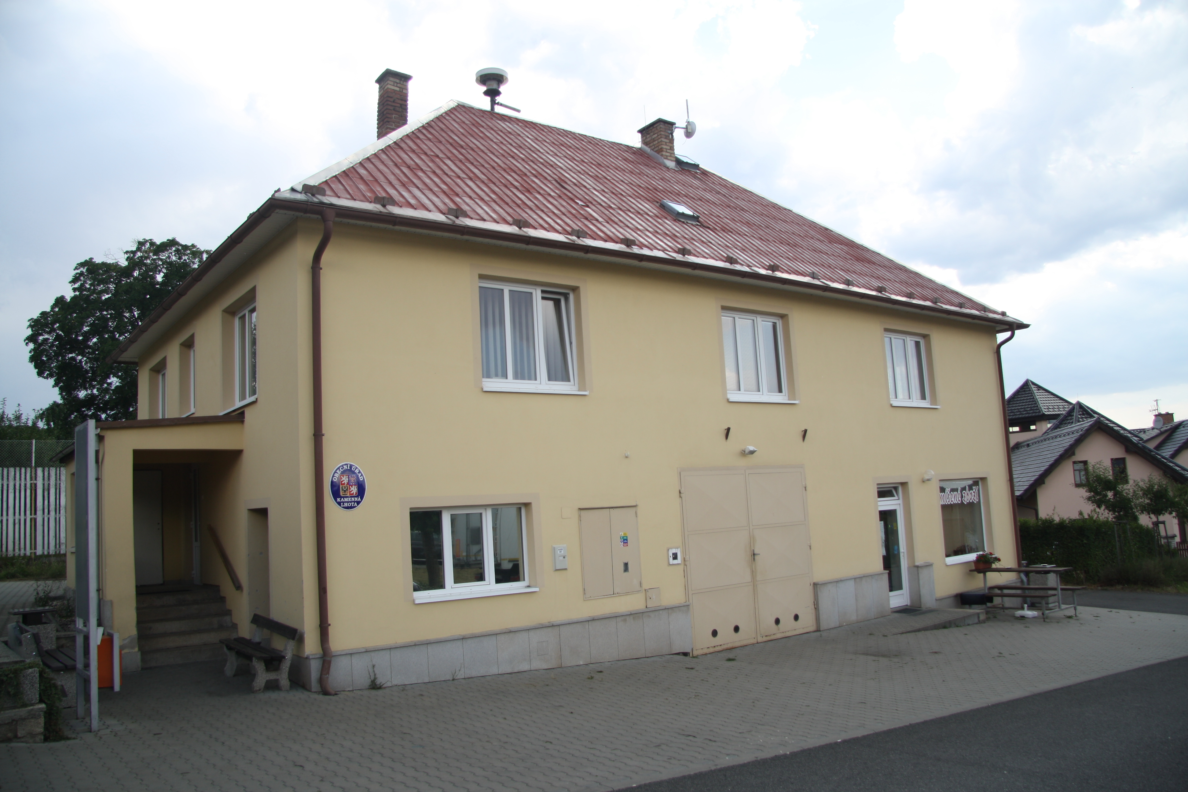 Municipal office in Kamenná Lhota, Havlíčkův Brod District.